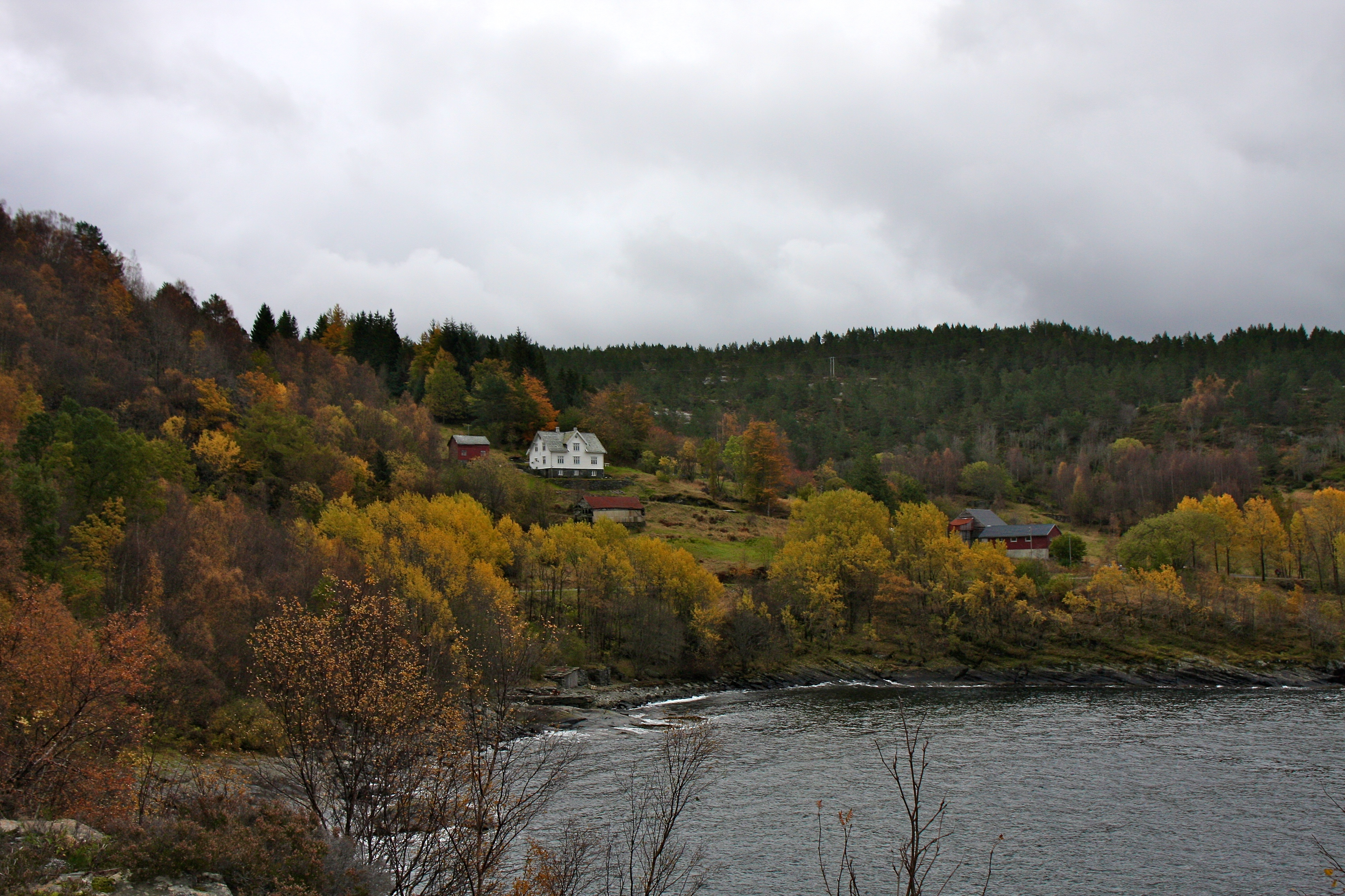 Fallebø in Gulen municipality, Norway.